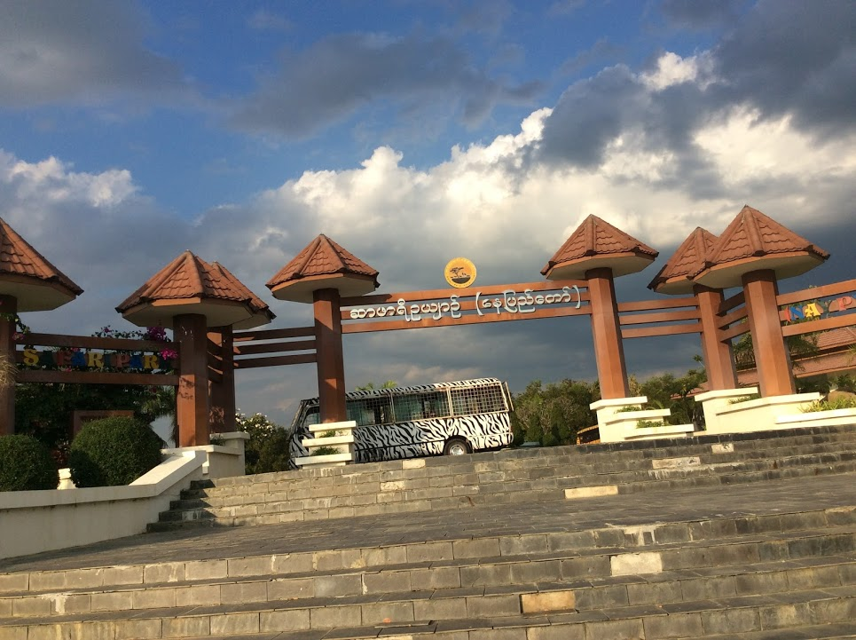 Safari Park, Naypyitaw, Myanmar.